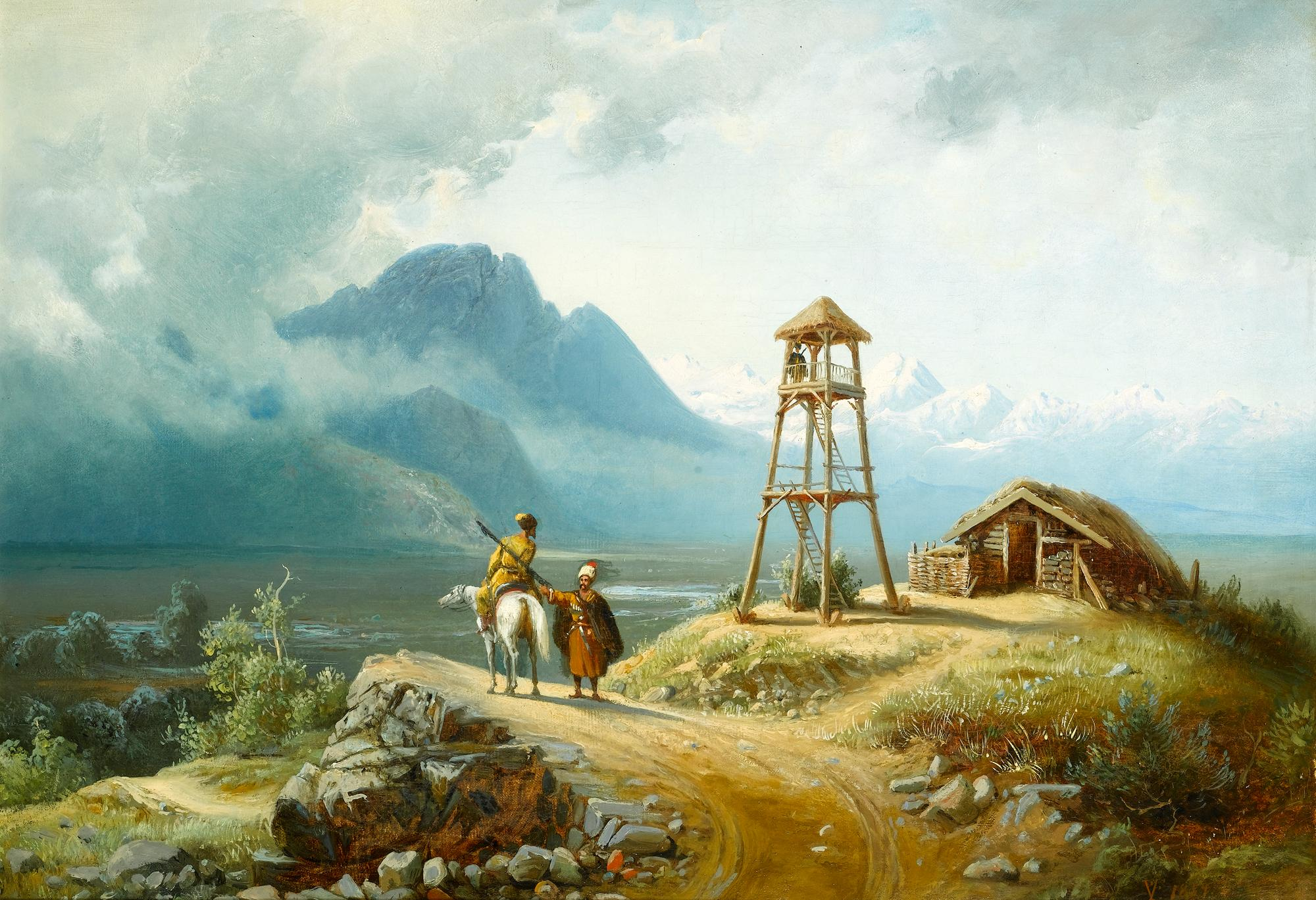 A Mountainous Landscape with a Horseman by a Tower